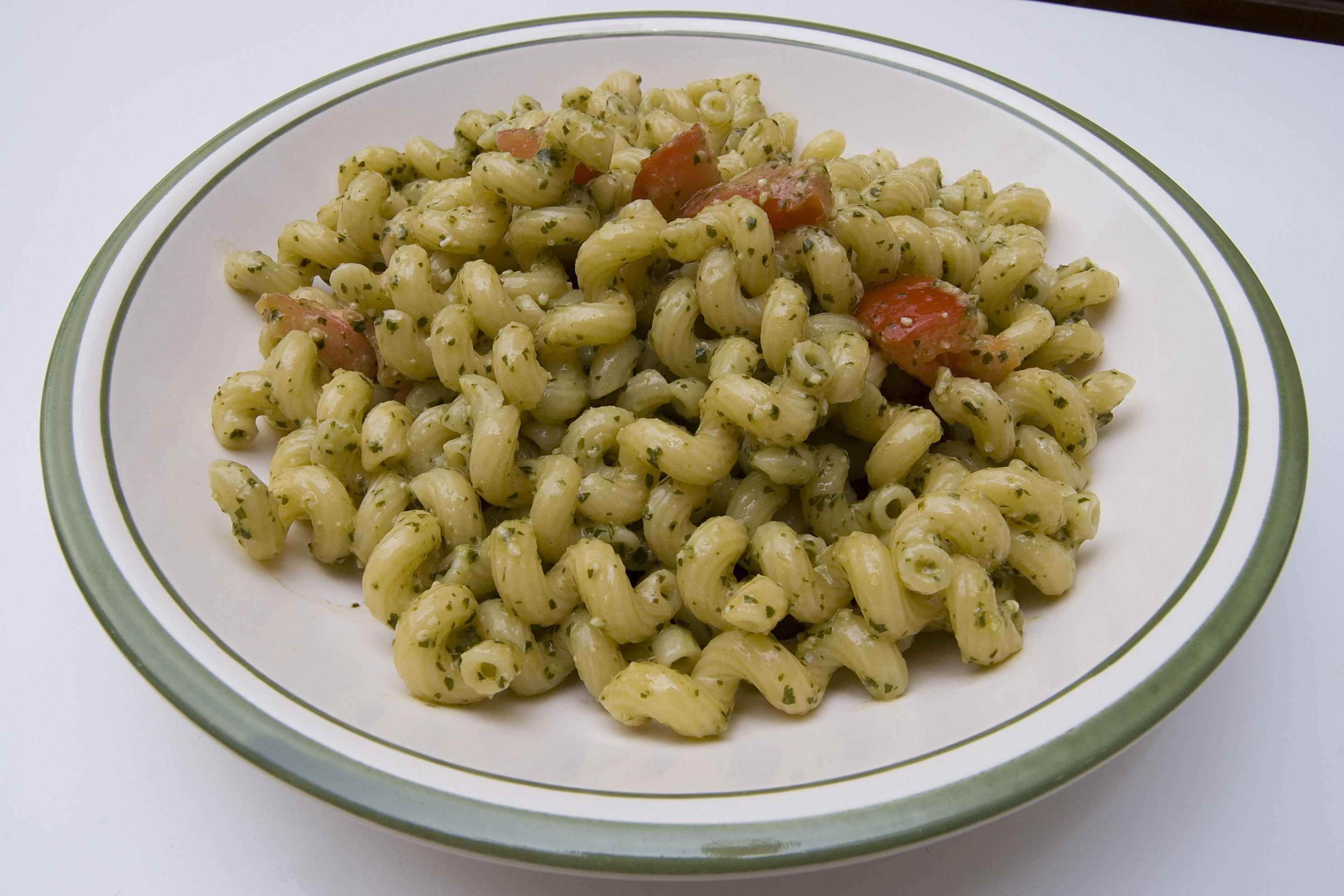 A plate of cellentani (also referred to as cavatappi) pasta with pesto and tomatoes as prepared by the photographer.